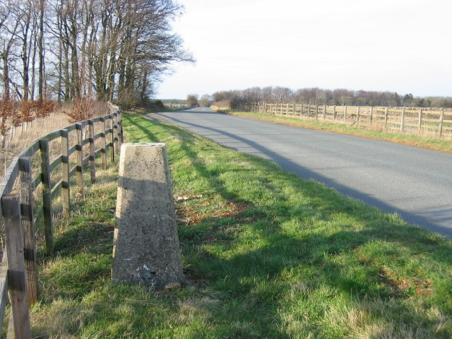 Cutsdean Hill Roadside triangulation pillar at one of the few tops over 1000' in the Cotswolds.